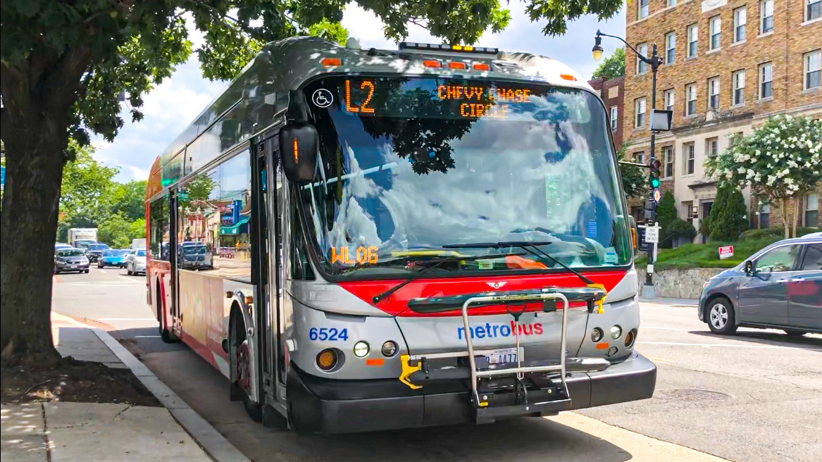 WMATA New Flyer DE40LFA 6524 on Route L2 Along Connecticut Avenue